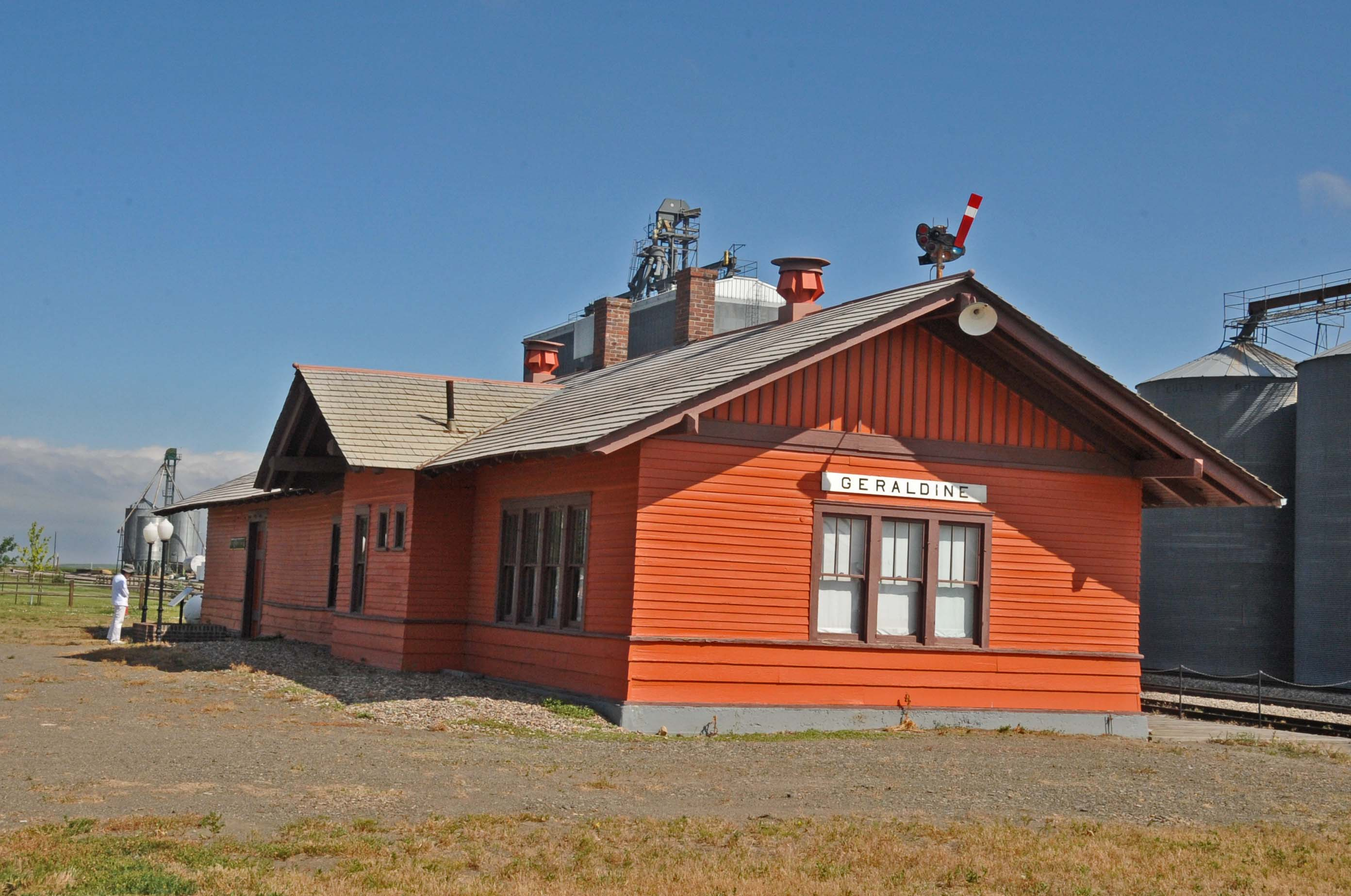 BUILT IN 1914 BY THE CHICAGO, MILWAUKEE, ST. PAUL AND PACIFIC RR.; IT IS BUILT IN CRAFTSMAN STYLE. IN 1980 THE COMPANY WENT BANKRUPT AND CEASED SERVICE TO THE NORTHWEST. IT IS ONE OF THE LAST OF SUCH DEPOTS ALONG THE NORTH MONTANA LINE